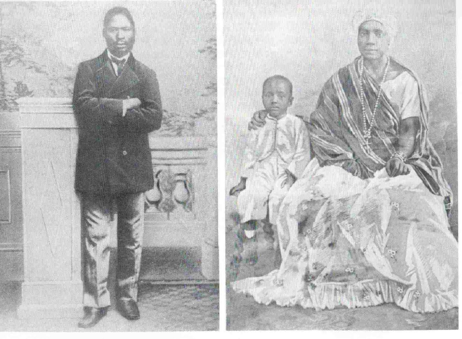 Joao Esan and Angelica Darocha